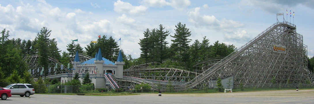 Excalibur at Funtown Splashtown USA in Saco, Maine. Photo by Ryan Painter